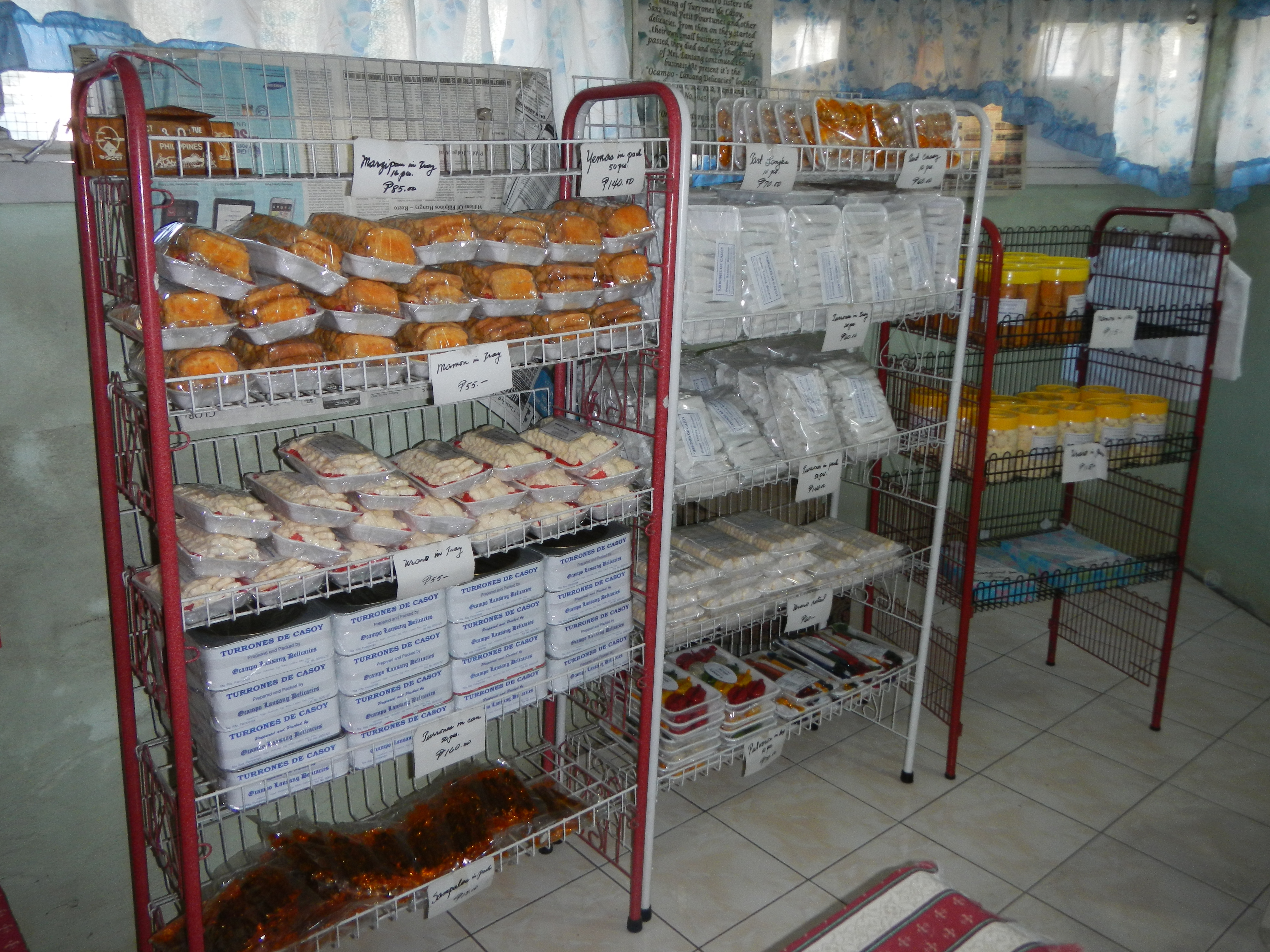 Ocampo Lansang Turones de Casoy of Sta Rita Santa Rita, Pampanga[1]